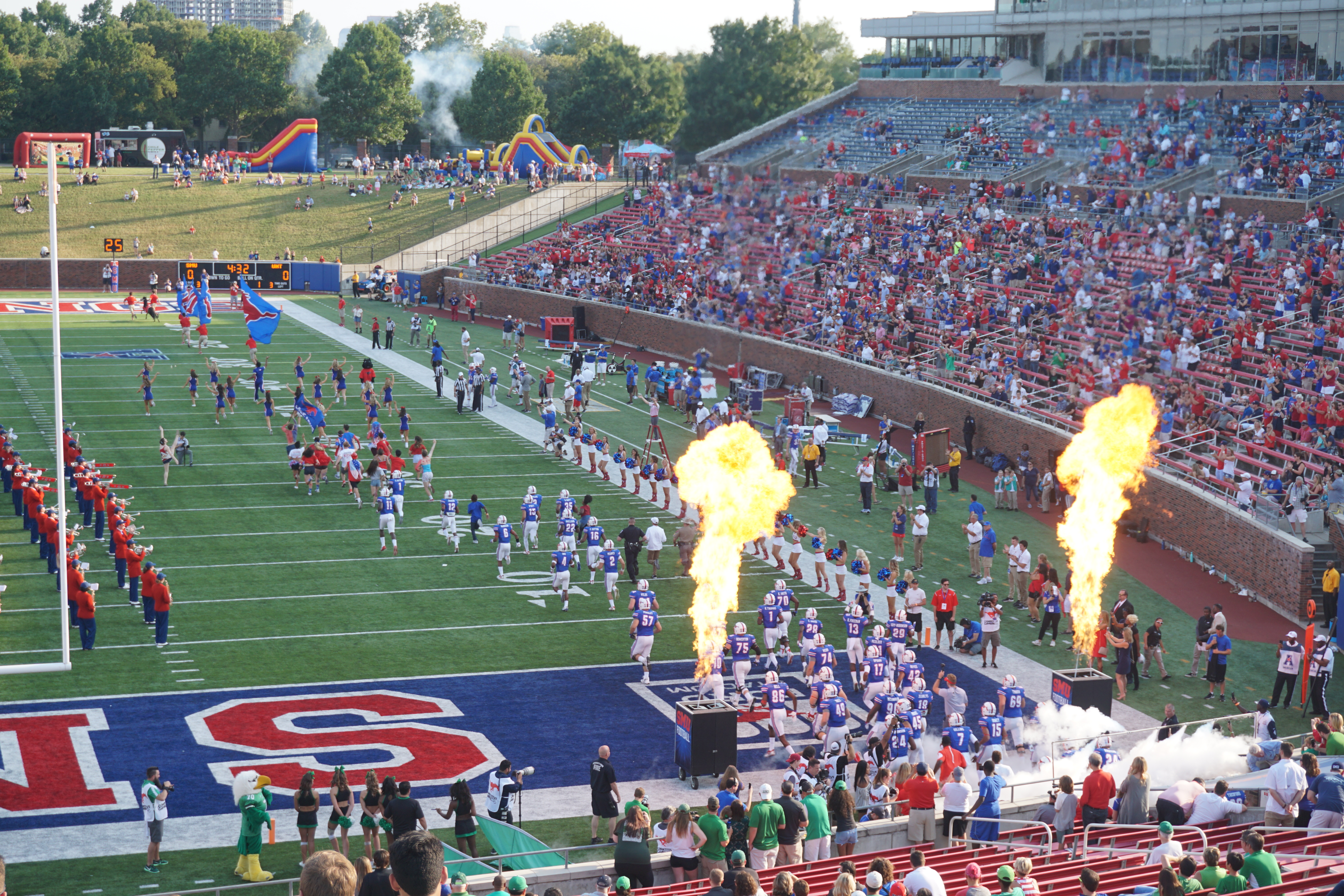 Southern Methodist entering the field before the North Texas Mean Green vs. Southern Methodist Mustangs football game at Gerald J. Ford Stadium in University Park, Texas (United States). Southern Methodist won 54–32.